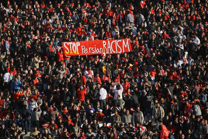 Supporters chant slogans in Azerbaijani Turkic and demand rights such as language instruction in their mother tongues.